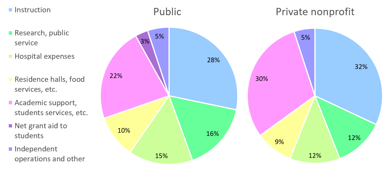 data